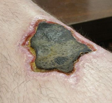 The necrotic leg of Jeffrey Rowland.